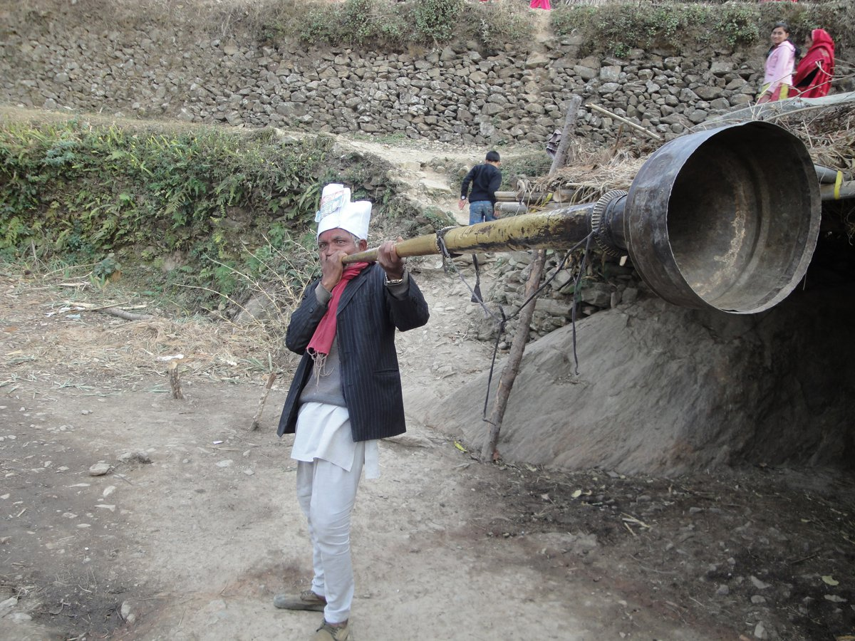 A musical instrument used in Nepal. (Picture by:Madhusudan Rayamajhi)